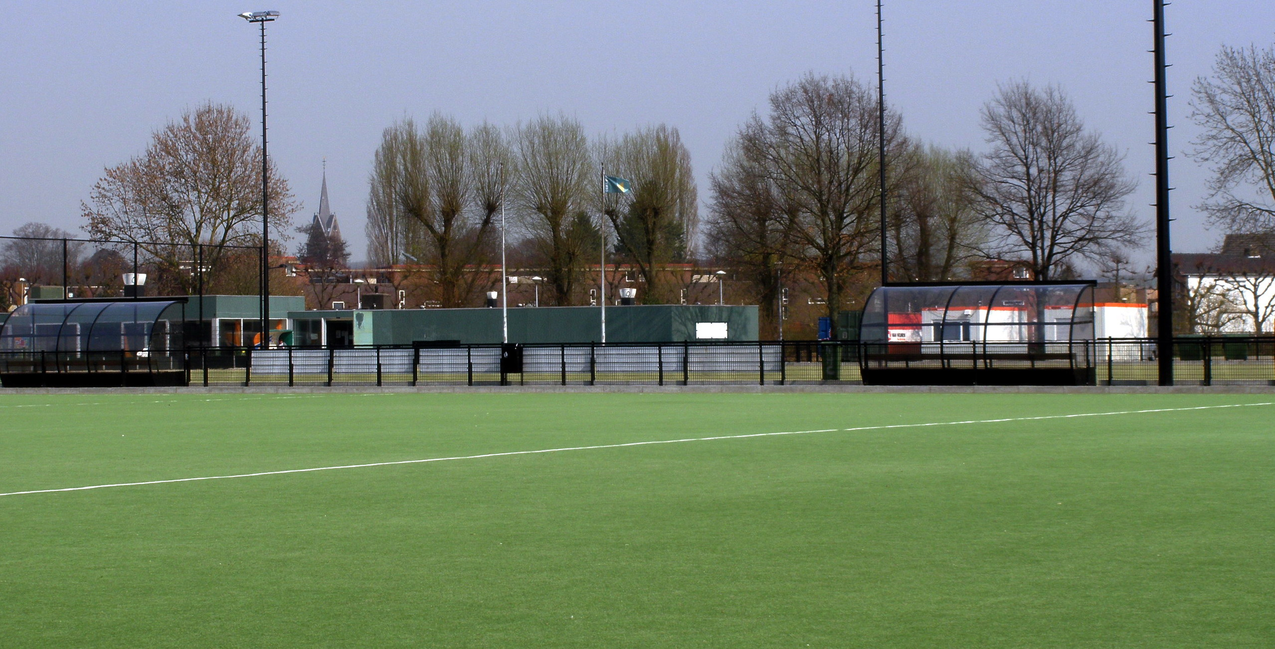 Maastricht, the Netherlands. View of soccer or hockey fields in Geusseltpark in the Northeast of Maastricht.